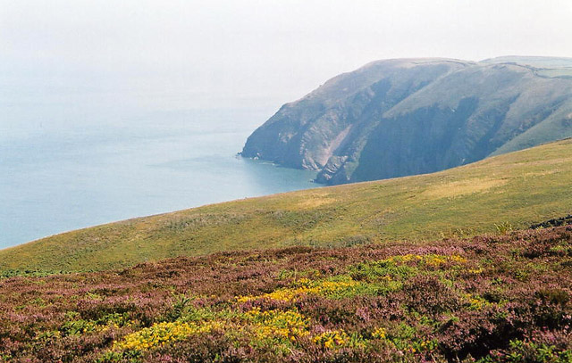 Combe Martin: overlooking Elwill Bay, Trentishoe